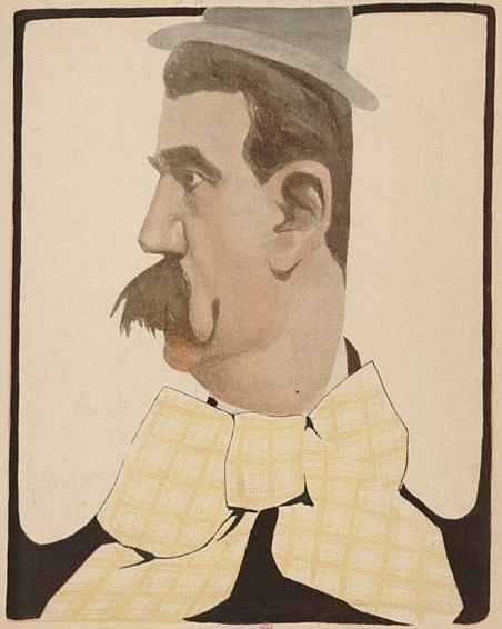 Caricature of Italian composer Ruggero Leoncavallo (1857-1919) published in the French satirical magazine L'Assiette au Beurre, September, 29, 1902.